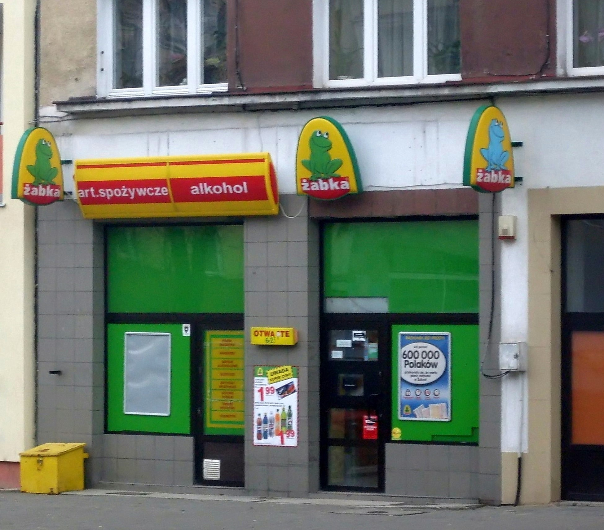 Żabka at ulica Śląska, Gdynia.